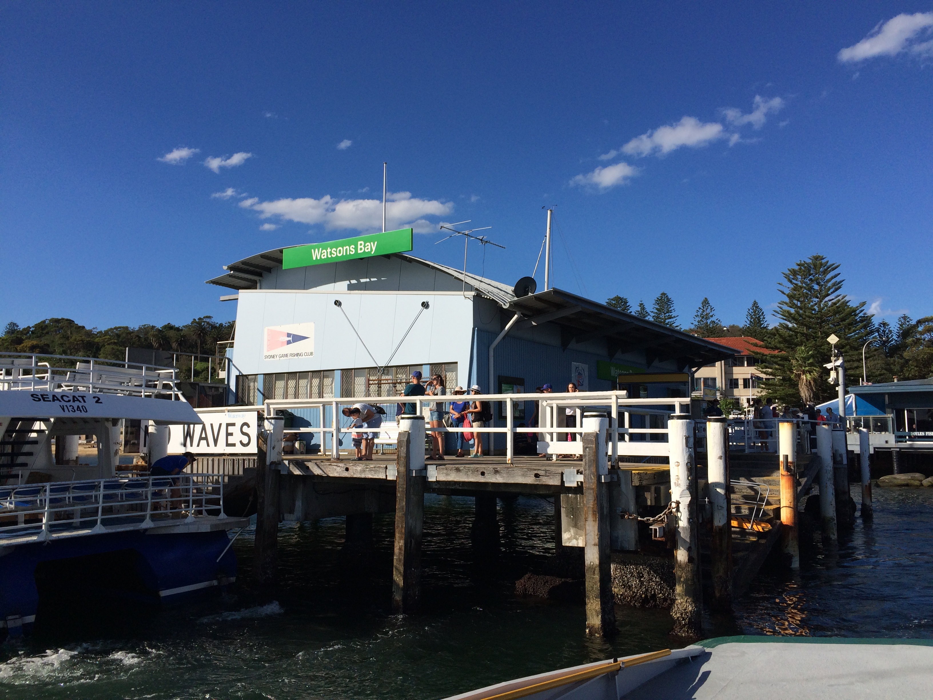 Outbound view aboard the Dawn Fraser of the Watsons Bay ferry wharf, the terminus of the F7 Eastern Suburbs service by Sydney Ferries. The wharf, hosting two perpendicular berths on a single wharf, is one of the oldest continually operating wharves in Sydney Harbour, and to this day remains a major stop on the Sydney Ferries network, being a point of interest for weekend travellers, local residents whom otherwise have no other direct public transport connection the city, and tourists headed to North Head, The Gap and its surrounds.